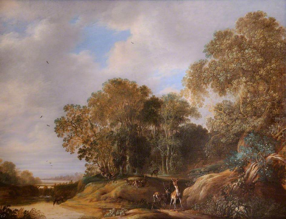 Paisaje con ciervos, óleo sobre tabla, 44,5 x 60 cm, The Wellington Collection, Apsley House.